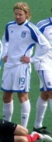 Juris Laizāns in action FC Shinnik